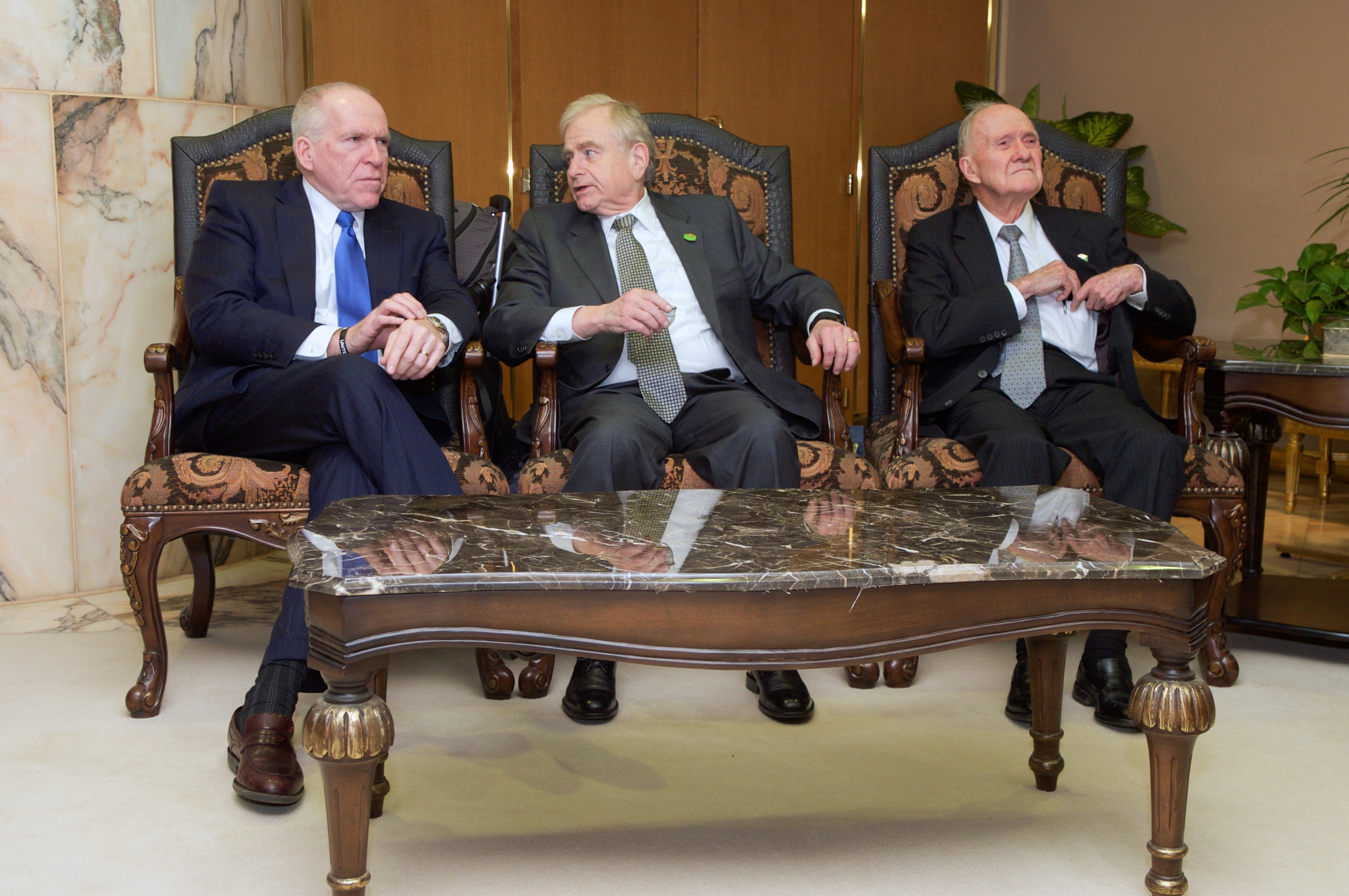 CIA Director John Brennan and former National Security Advisers Sandy Berger and Brent Scowcroft chat at King Khaled International Airport as they await President Obama's arrival in Riyadh, Saudi Arabia, on January 27, 2015, to extend condolences to the late King Abdullah and call upon and meet with the new King Salman. [State Department photo/ Public Domain]